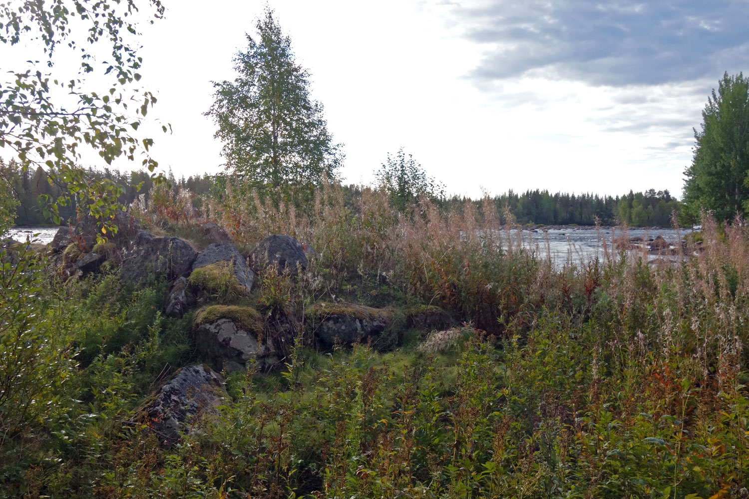 The ruins of the blast furnace in Tornefors by the river Torneälven, northern Sweden.